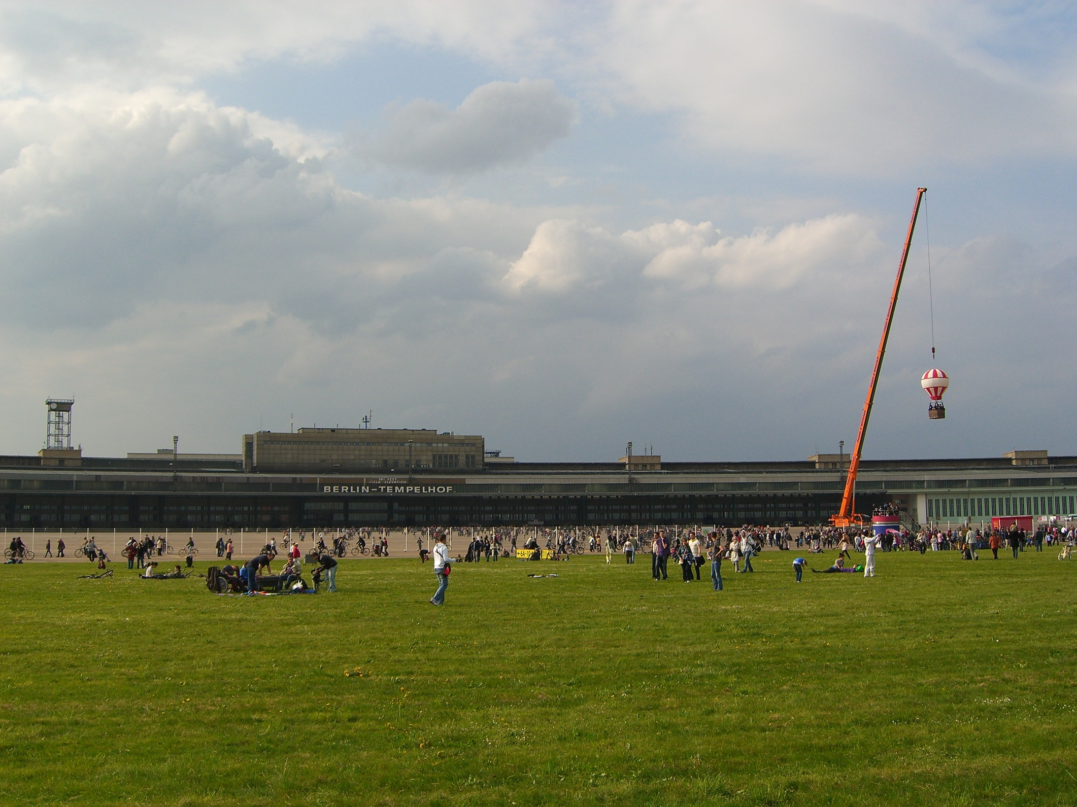 Opening of the "Tempelhof Air Field" (former Berlin Tempelhof Airport) to the public in May 2010.